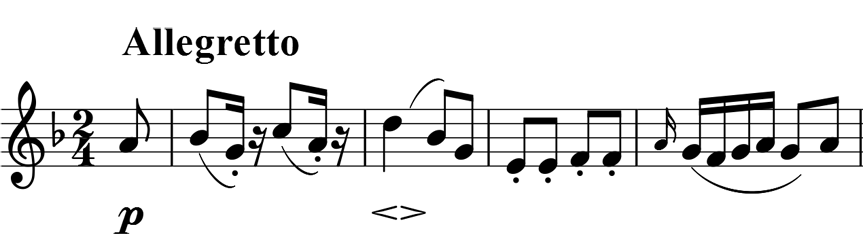 Joseph Haydn, Symphony No. 82, second movement Allegretto, bar 1-4, Violin 1